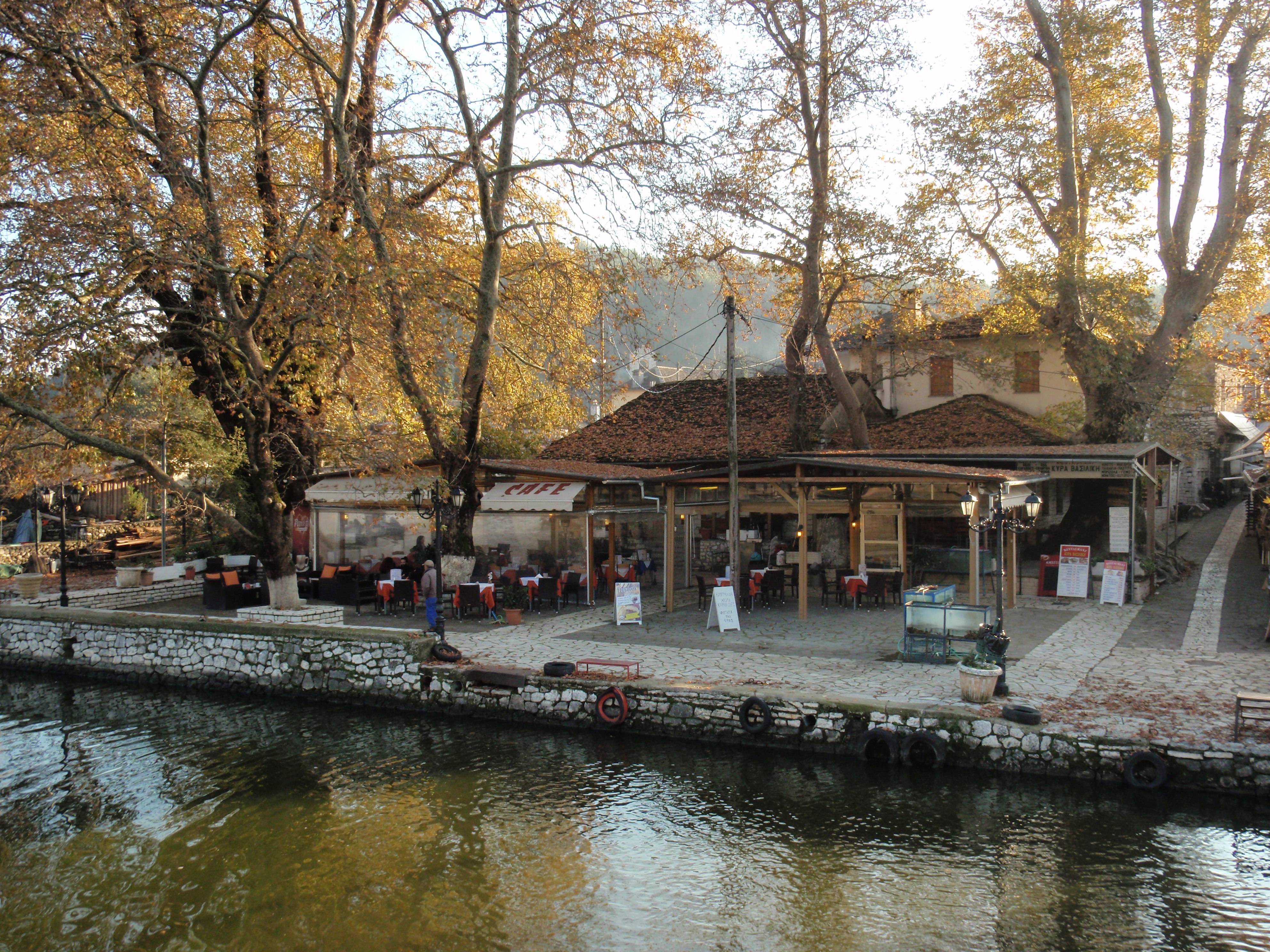 This is a photography of Natura 2000 protected area with ID GR2130005